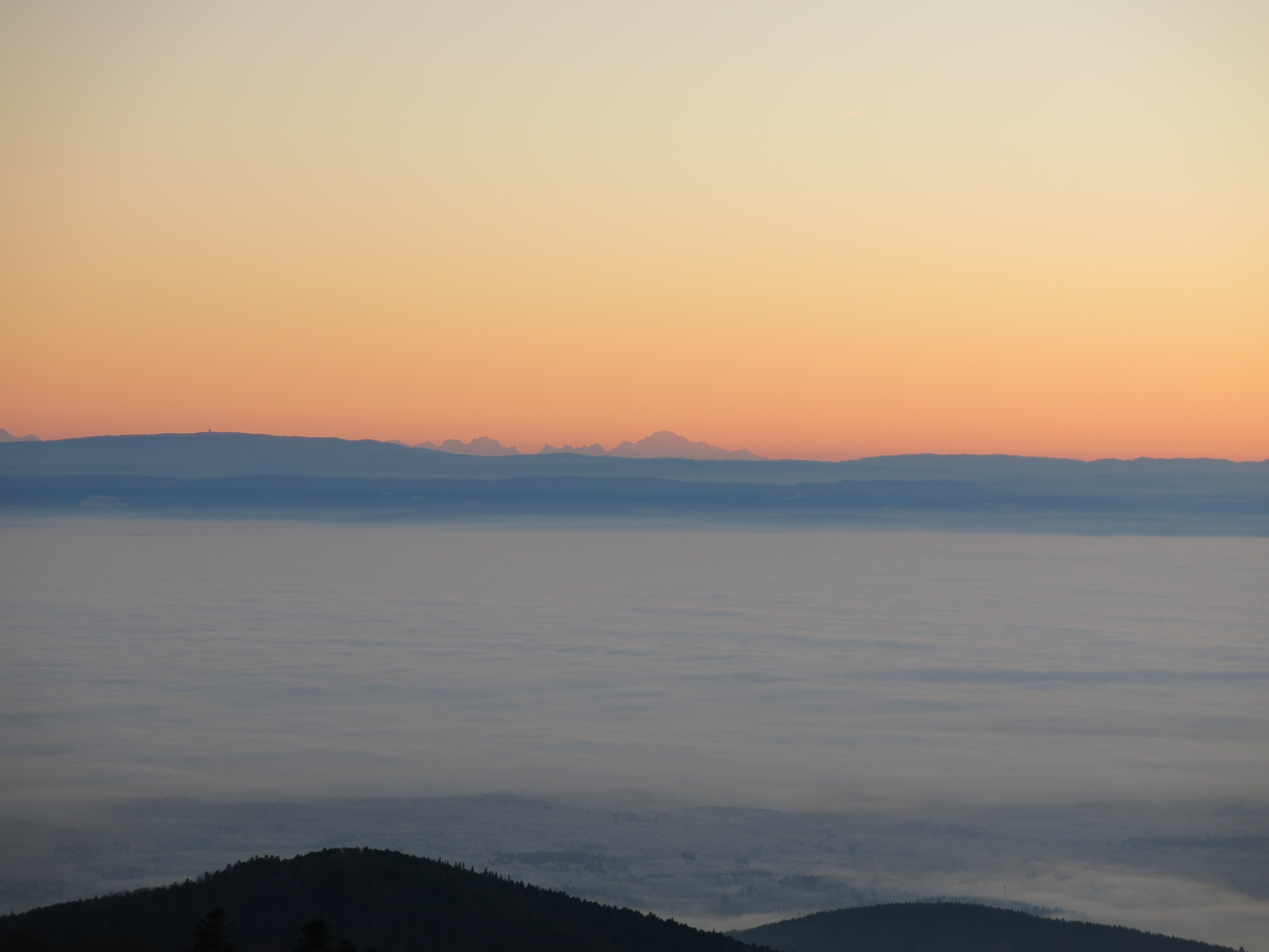 The Mont Blanc from a distance of 222 km, seen from the Thanner Hubel in the Vosges shortly after sunset